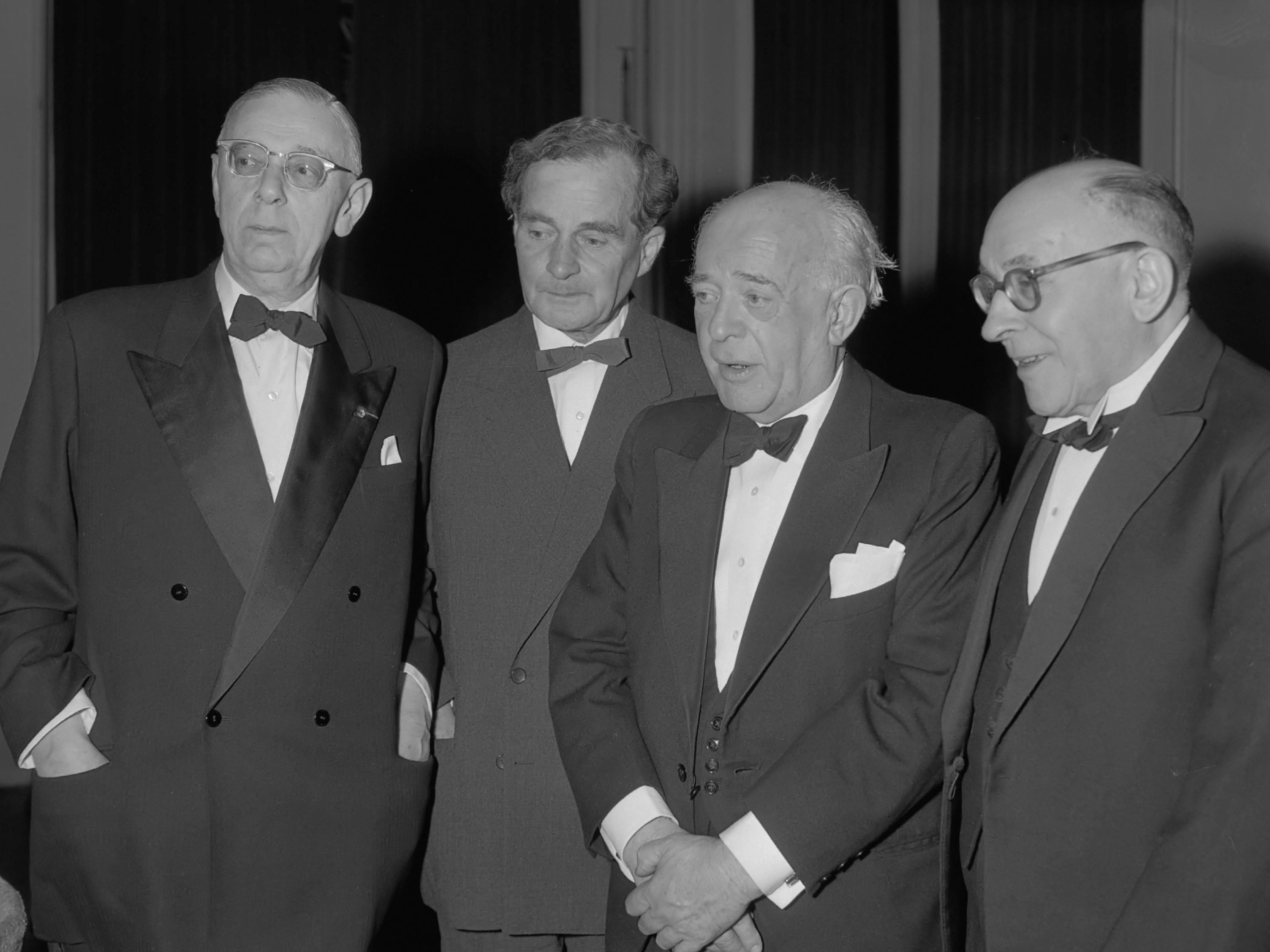 Huldiging van mr. Francois Pauwels t.g.v. 70ste verjaardag, v.l.n.r. Victor van Vriesland, Adriaan Roland Holst, Francois Pauwels en Mr. J. C. Bloem 25 oktober 1958